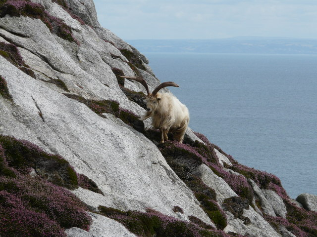 A goat confidently traversing the frighteningly steep granite rocks near Gannet's Bay.